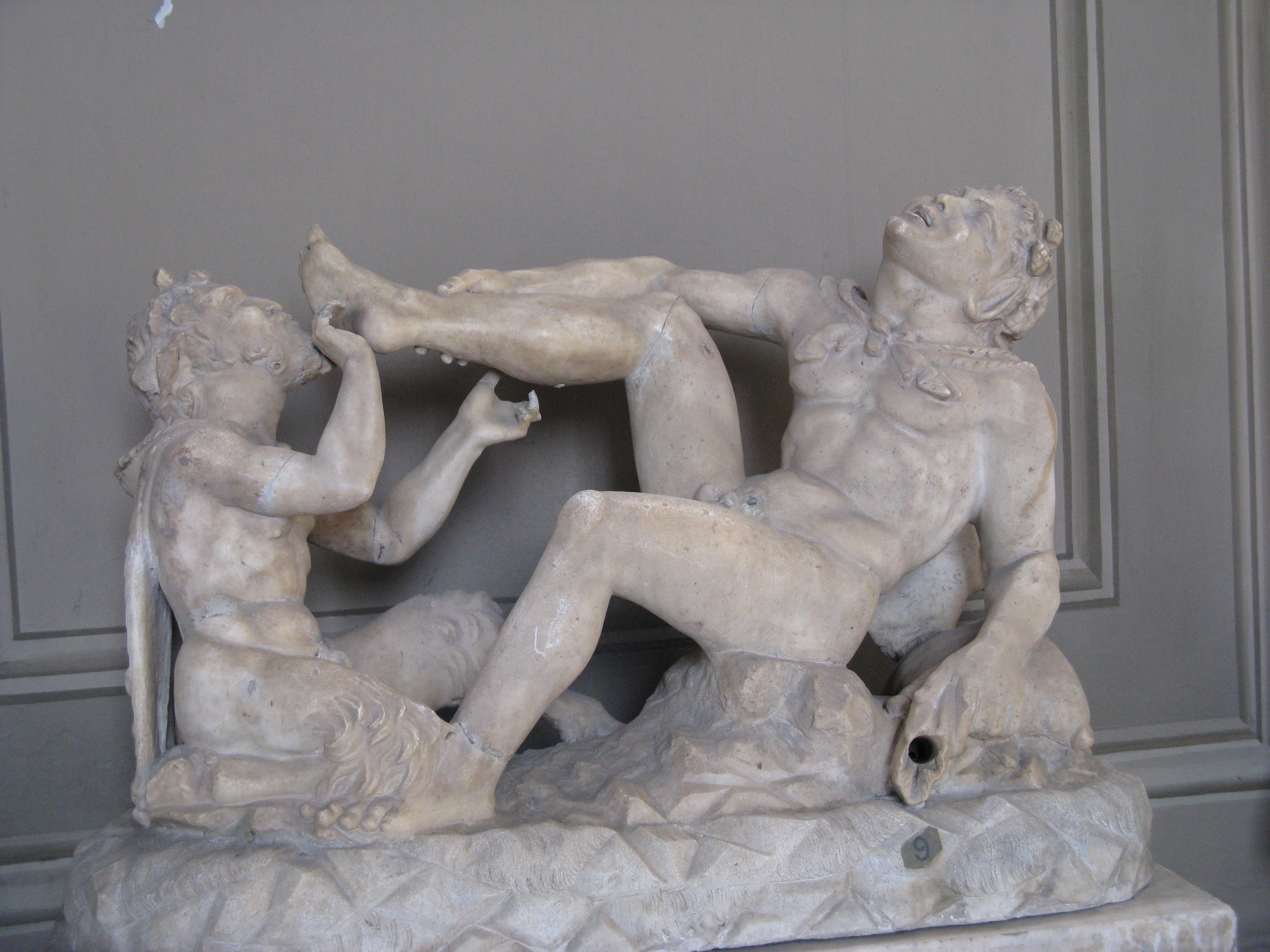 Pan pulling a thorn from the foot of a Satyr. Marble. Roman copy of an original of the late 2nd or early ist century BC Rome, Vatican Museums.